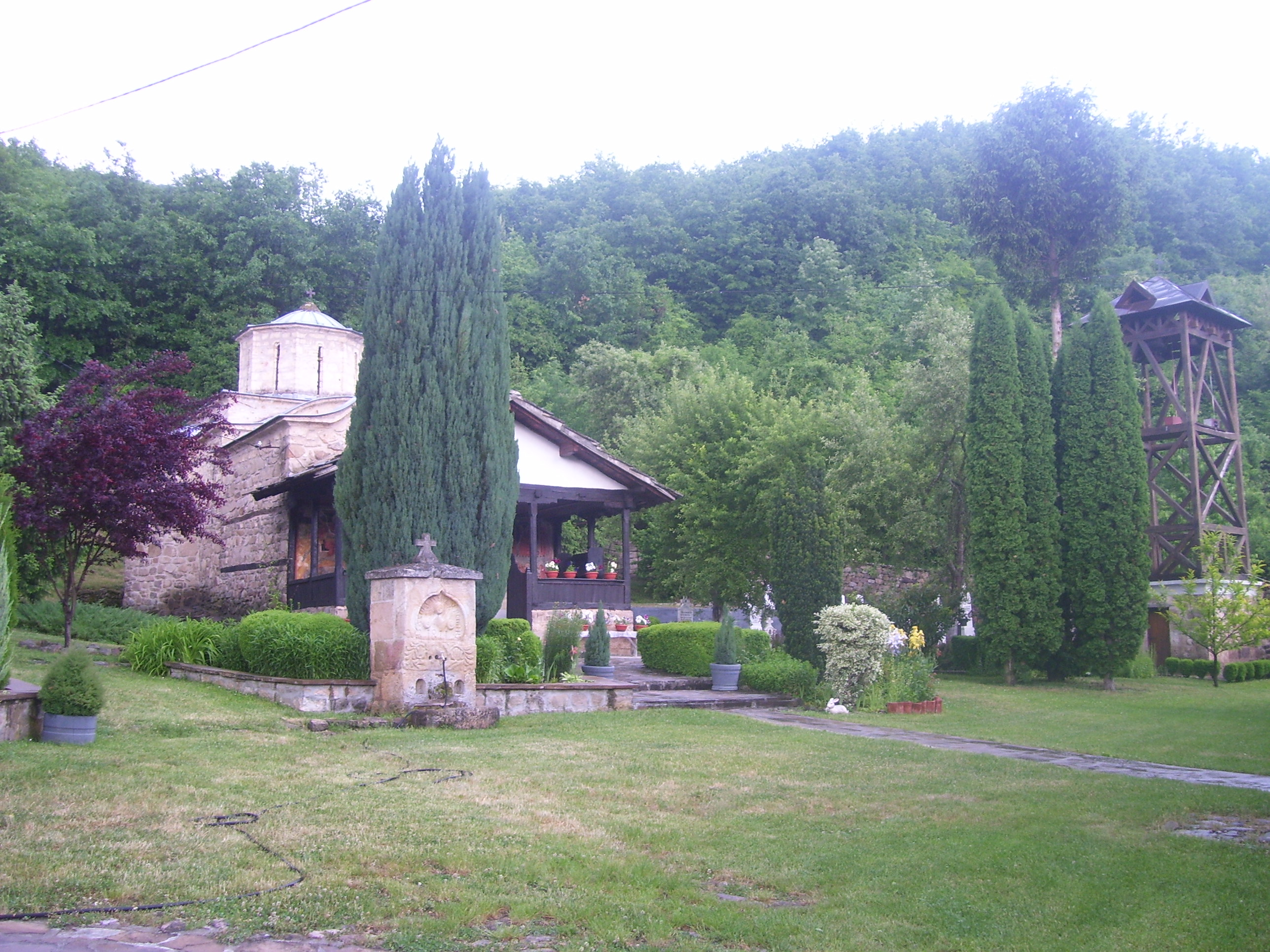 Temska monastery.